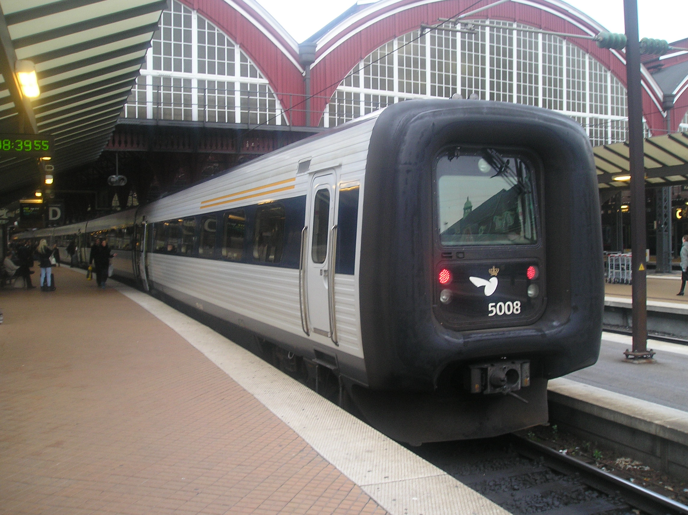 Diesel multiple unit IC3 at Copenhagen Central Station. IC3 08 in the new design.